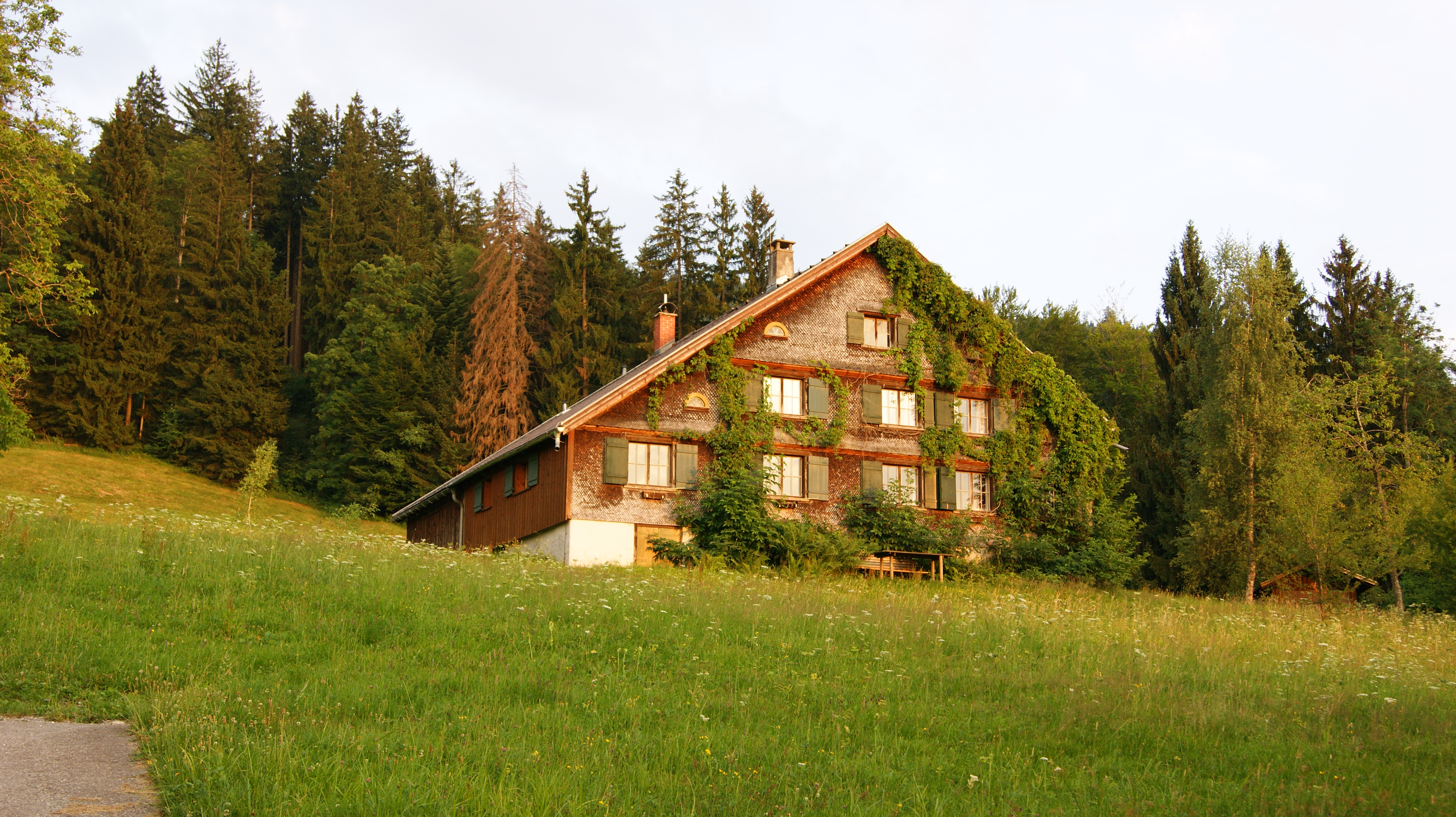 Rickatschwende in Dornbirn, Vorarlberg, Austria. Old farmhouse adjacent to the hotel Rickatschwende.